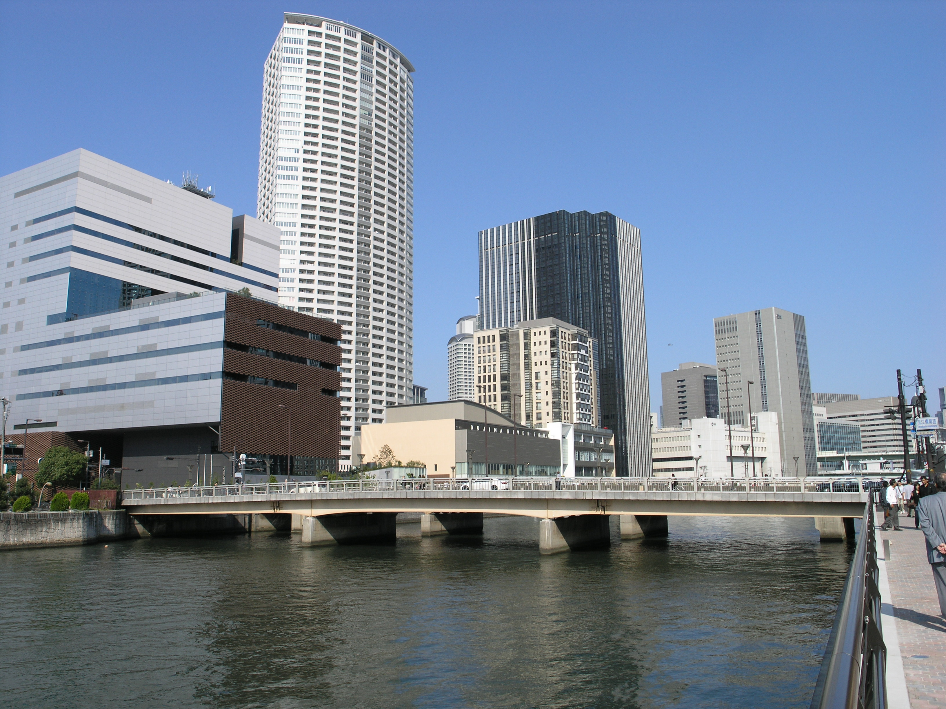 Tamae-bashi (Bridge) and Hotarumachi (Urban renewal area), Osaka, Japan